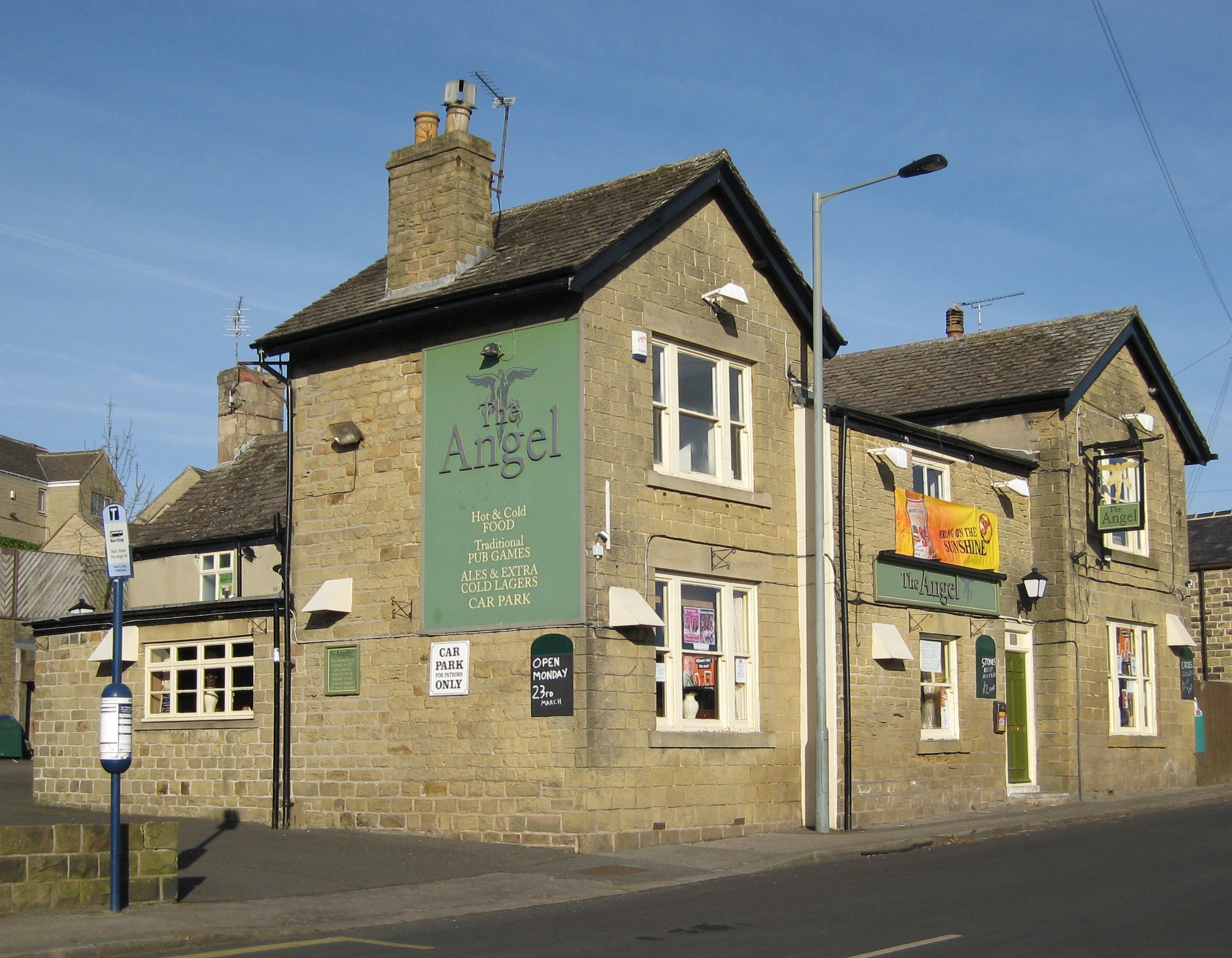 The Angel public house,151 Main Street, Grenoside, Sheffield S35 8PN